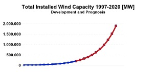 World installed wind power capacity 1997-2020 [MW], development and prognosis.